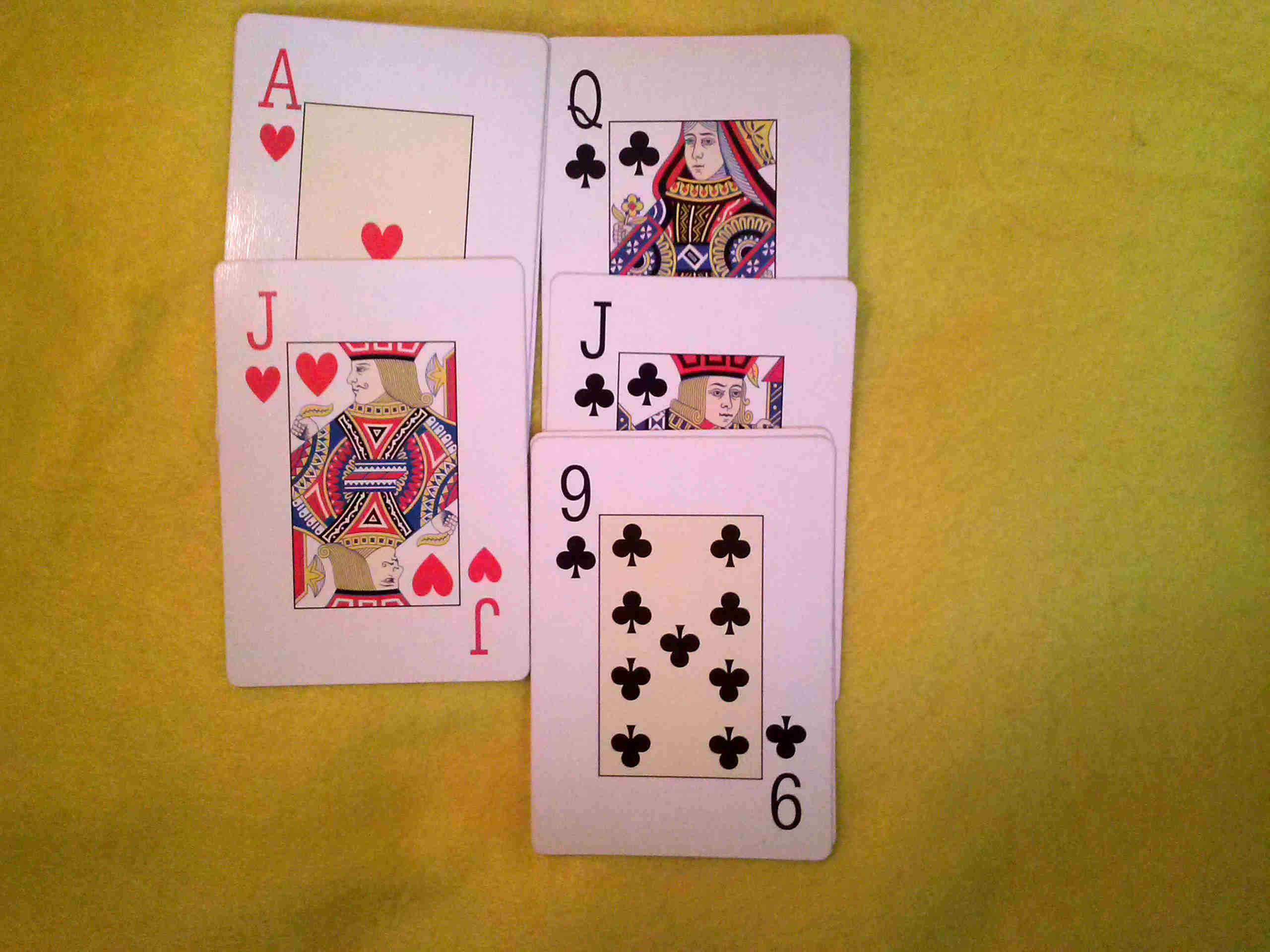 A dominoe or fan tan on card game Barbu king.